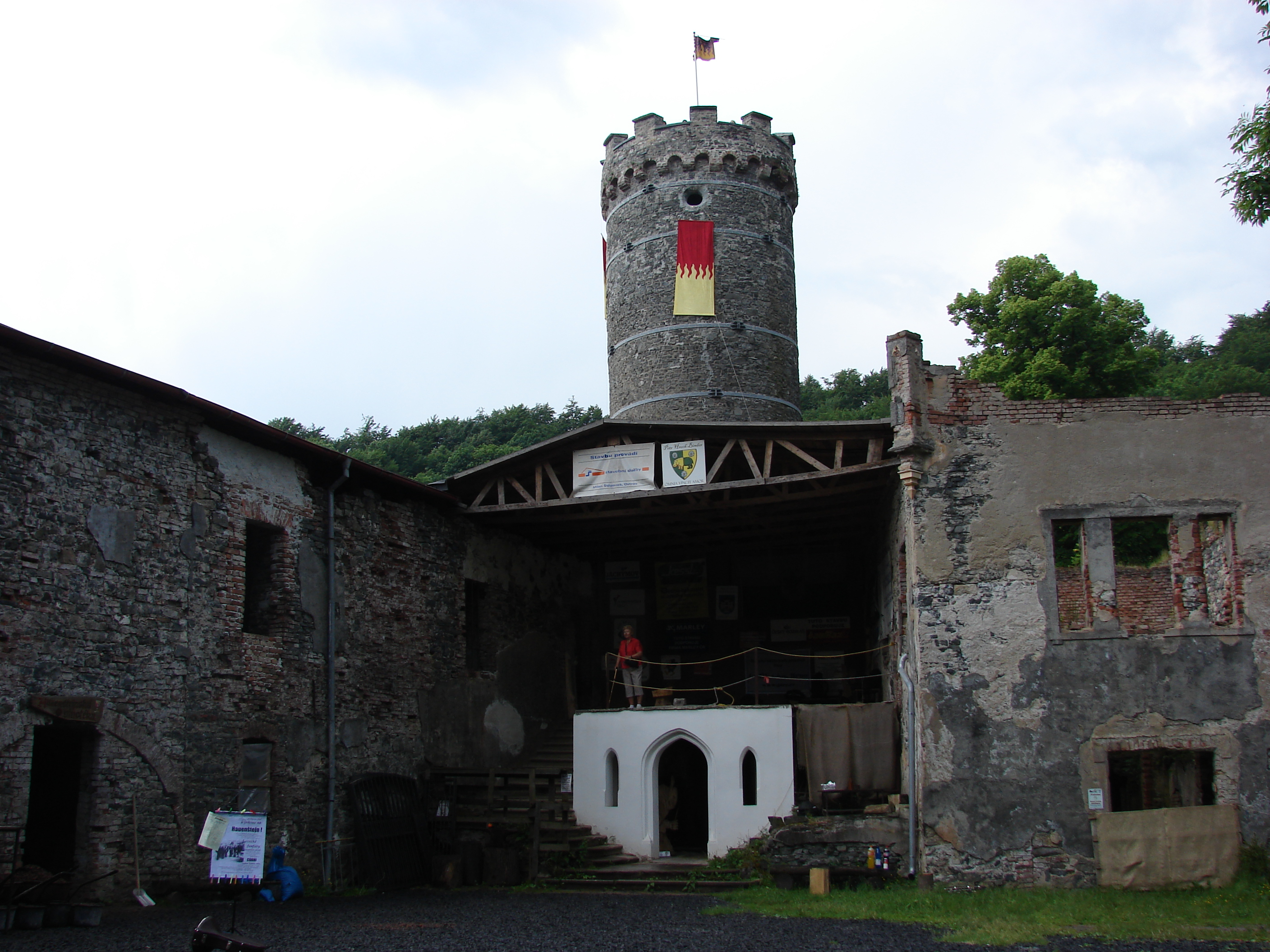 The castle of Hauenštejn